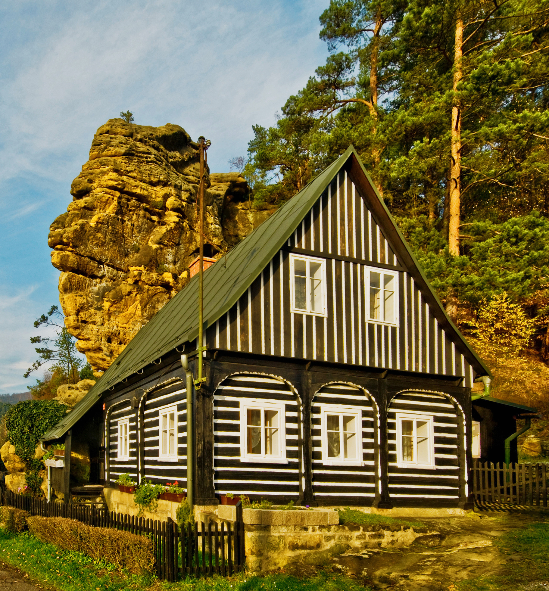 Upper Lusatian house in Jetřichovice, Bohemian Switzerland, Czech Republic.